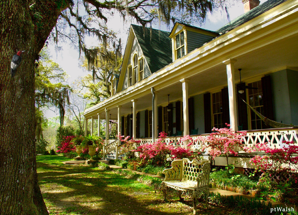 Antebellum Plantation Home, Butler Greenwood, in St. Francisville, Louisiana.